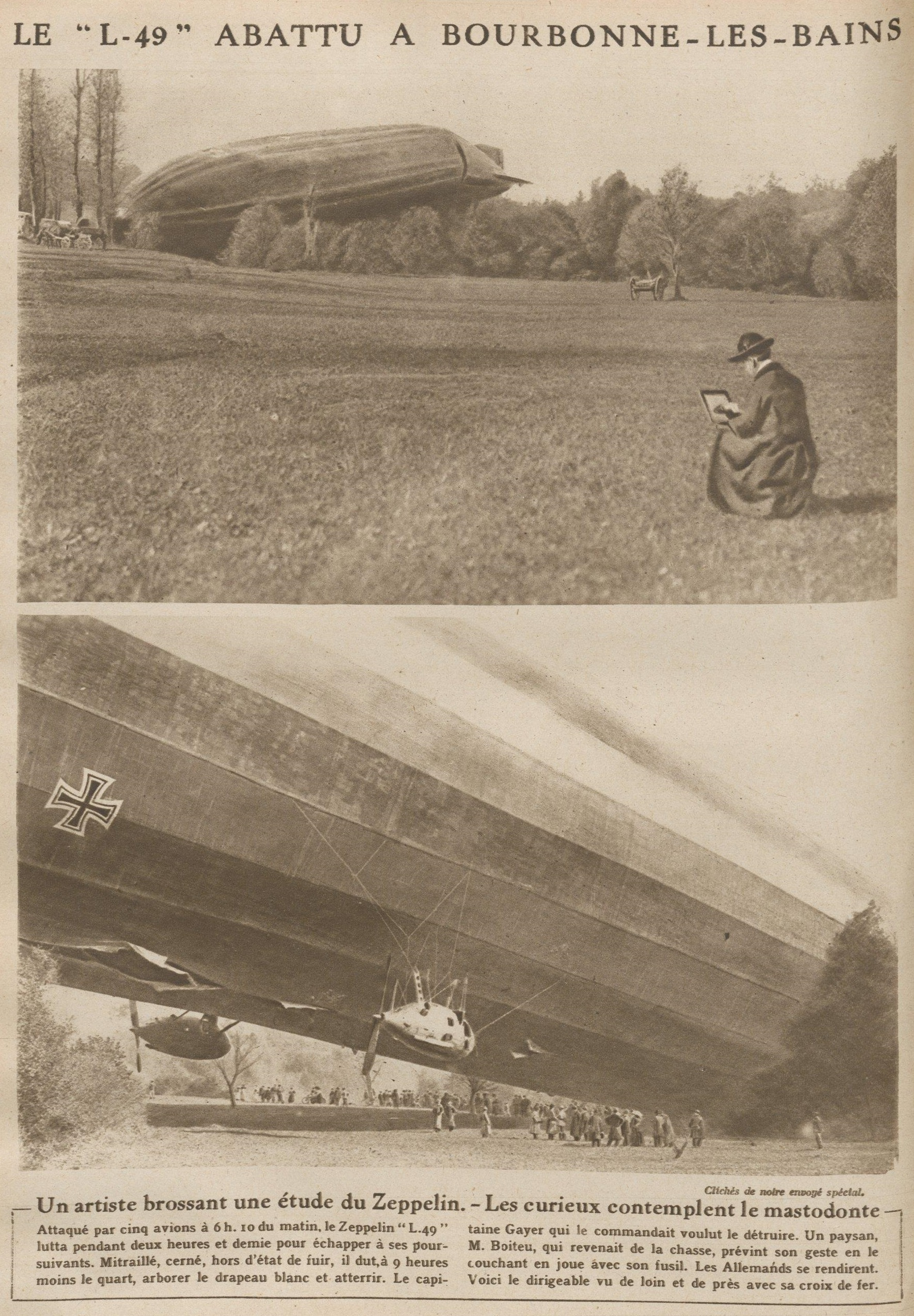 Photographs of the German airship L-49 fell on the town of Bourbonne-les-Bains to the return of bombing England. Photographs published in the weekly The Mirror November 4, 1917.